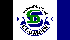 Flag of Saint-Damien